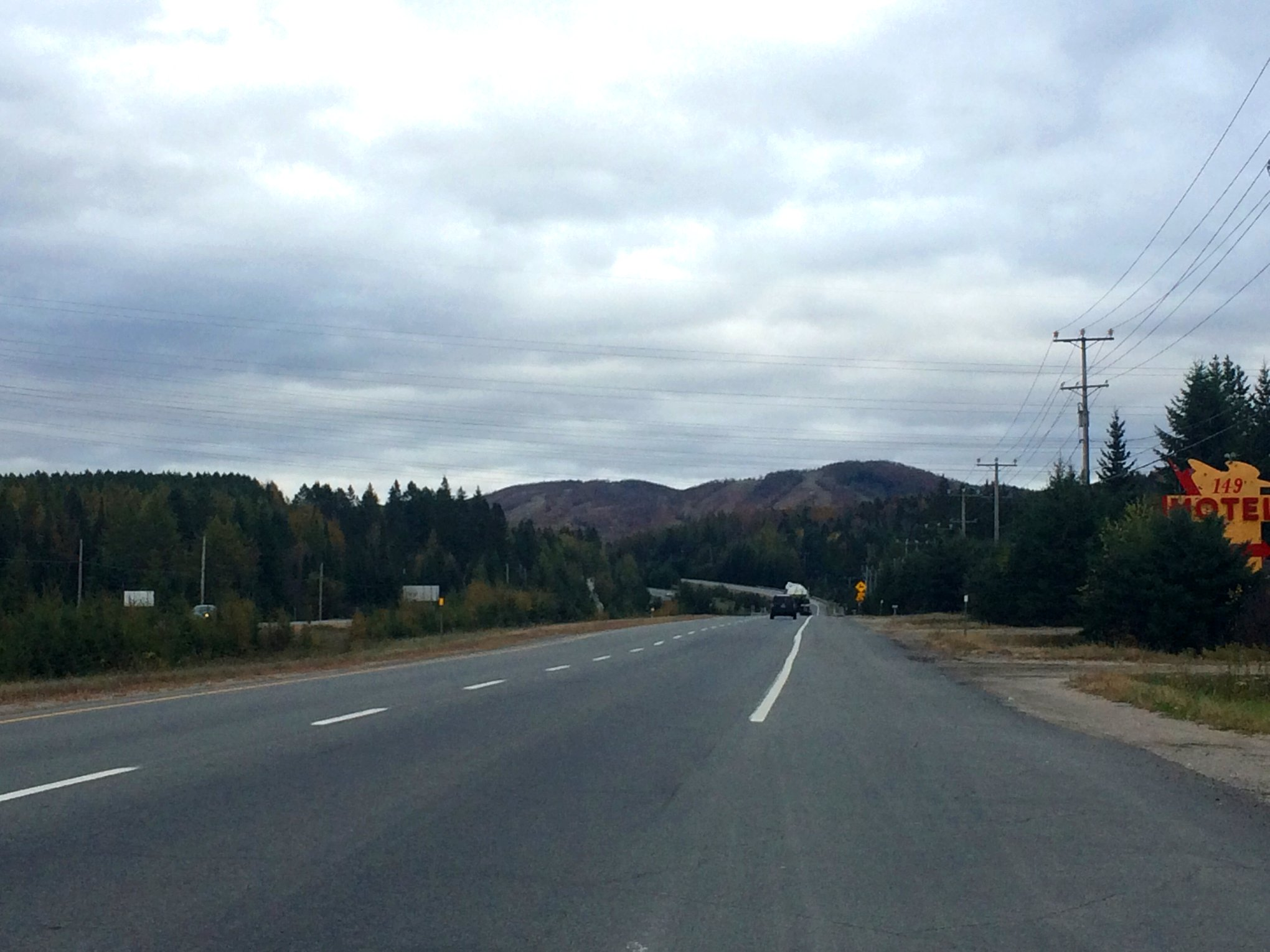 Mont Blanc rises in the distance as I pass eastward out of town on Route 117.